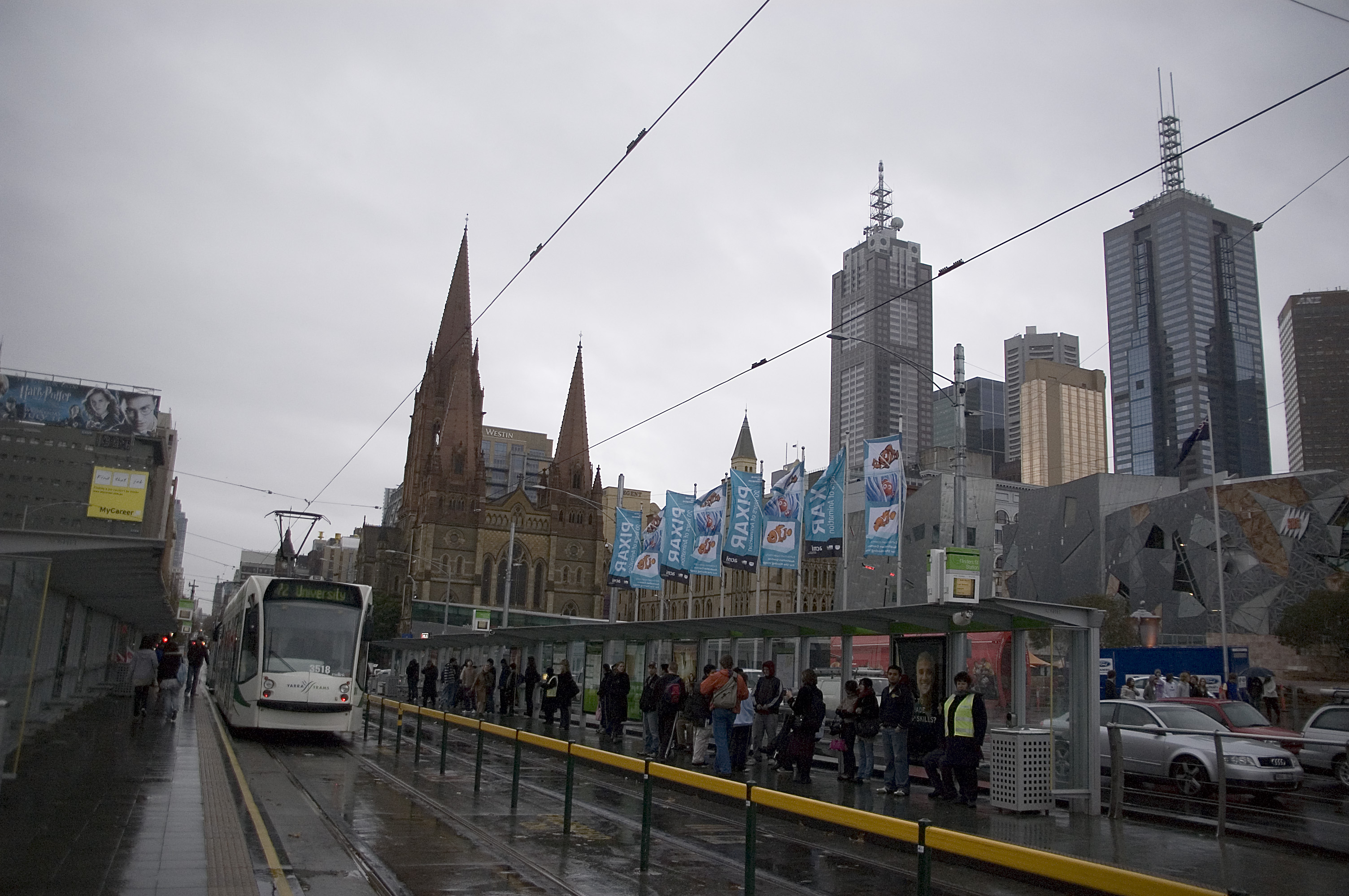 Tram stop on Swanston Street, Melbourne. The spires of St Paul's Cathedral are visible in the background.